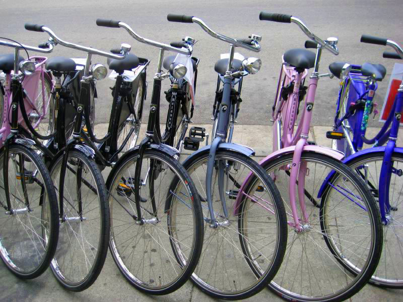 Batavus bicycles a variety of colors and configurations (one-speed, three speed, coaster brakes, drum brakes).